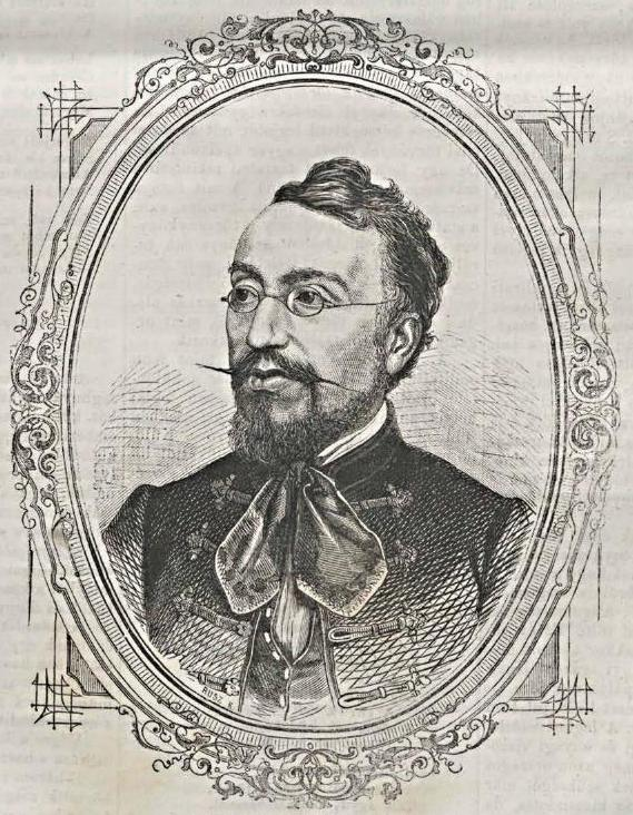 Portrait of Boldizsár Horvát